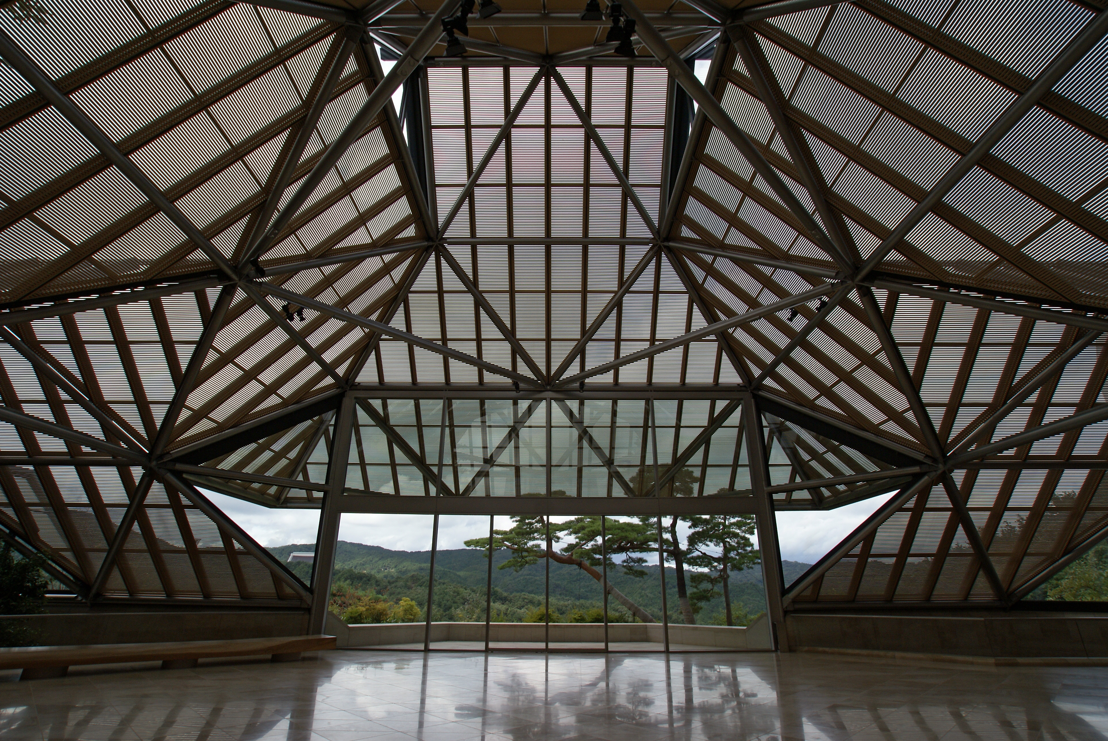 Miho Museum in Koka, Shiga prefecture, Japan